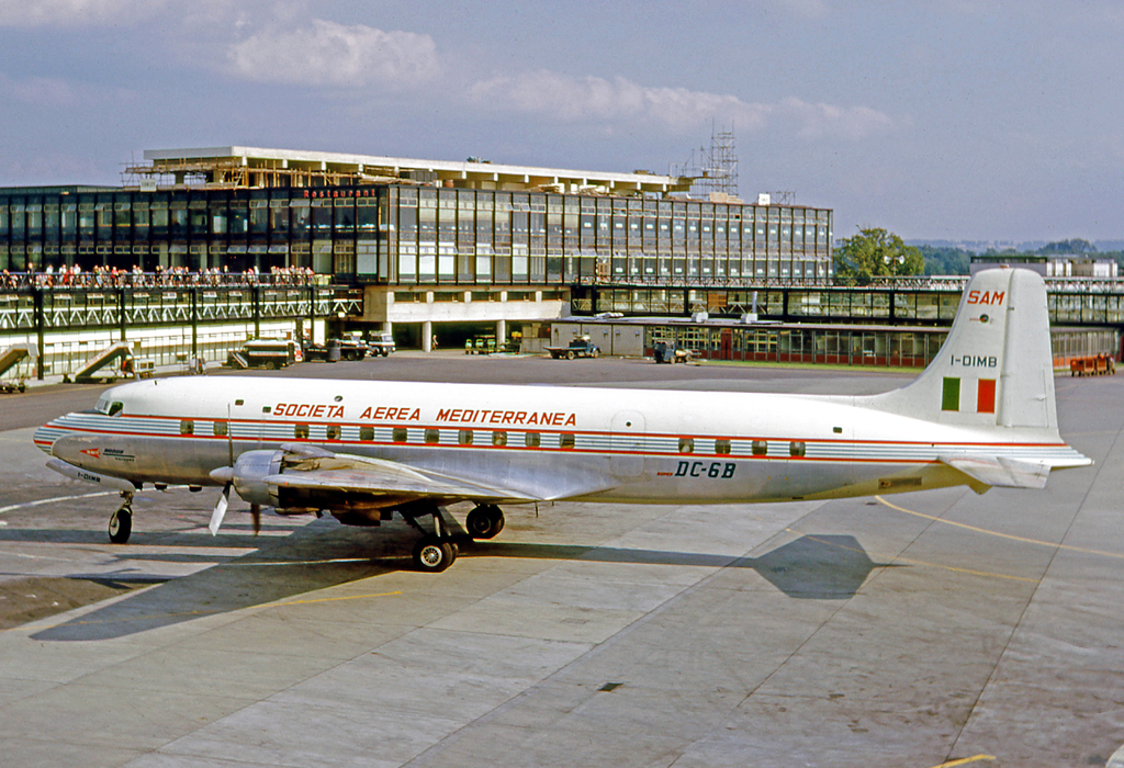 The main terminal building at London Gatwick Airport in August 1964 with a Douglas DC-6B of Societa Aerea Mediterranea arriving